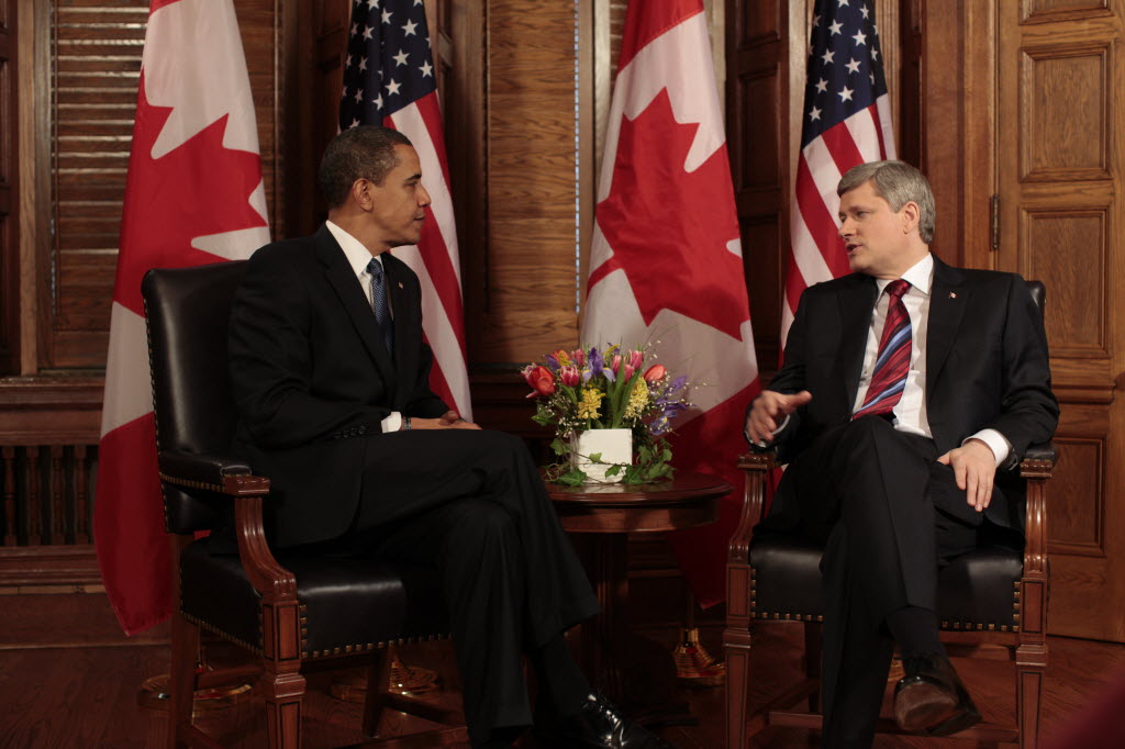 Barack Obama, President of the United States of America, with Stephen Harper, Prime Minister of Canada.